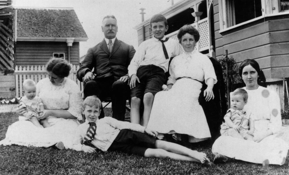 Family of George and Edwina Bunning, 1912 Back: Mr George Edward Bunning, Neville, Mrs Edwina Mary Huey (nee Edkins). Front: Minna with Magog, Vaye (Neville's brother) and Marnie (Marion) with Gog. George Edward Bunning married Edwina Mary Huey (nee Edkins) on 26 April 1892. Minna born 17 February 1893, Marrion born 26 June 1894, Neville 22 February 1902 and twins Verdon and Walter born 19 May 1912. (DOB for Vaye, unknown).